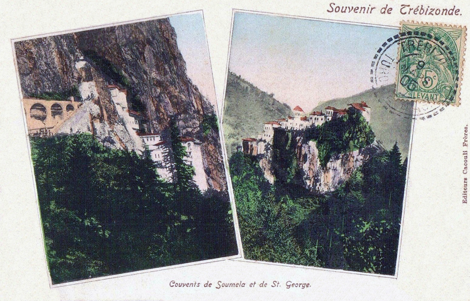 Postcard of Trebizond (Trabzon), Ottoman Empire.